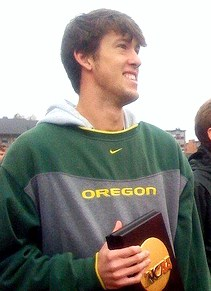 Andrew Wheating watches a replay of Galen Rupp's run at the 2008 NCAA Cross Country meet.